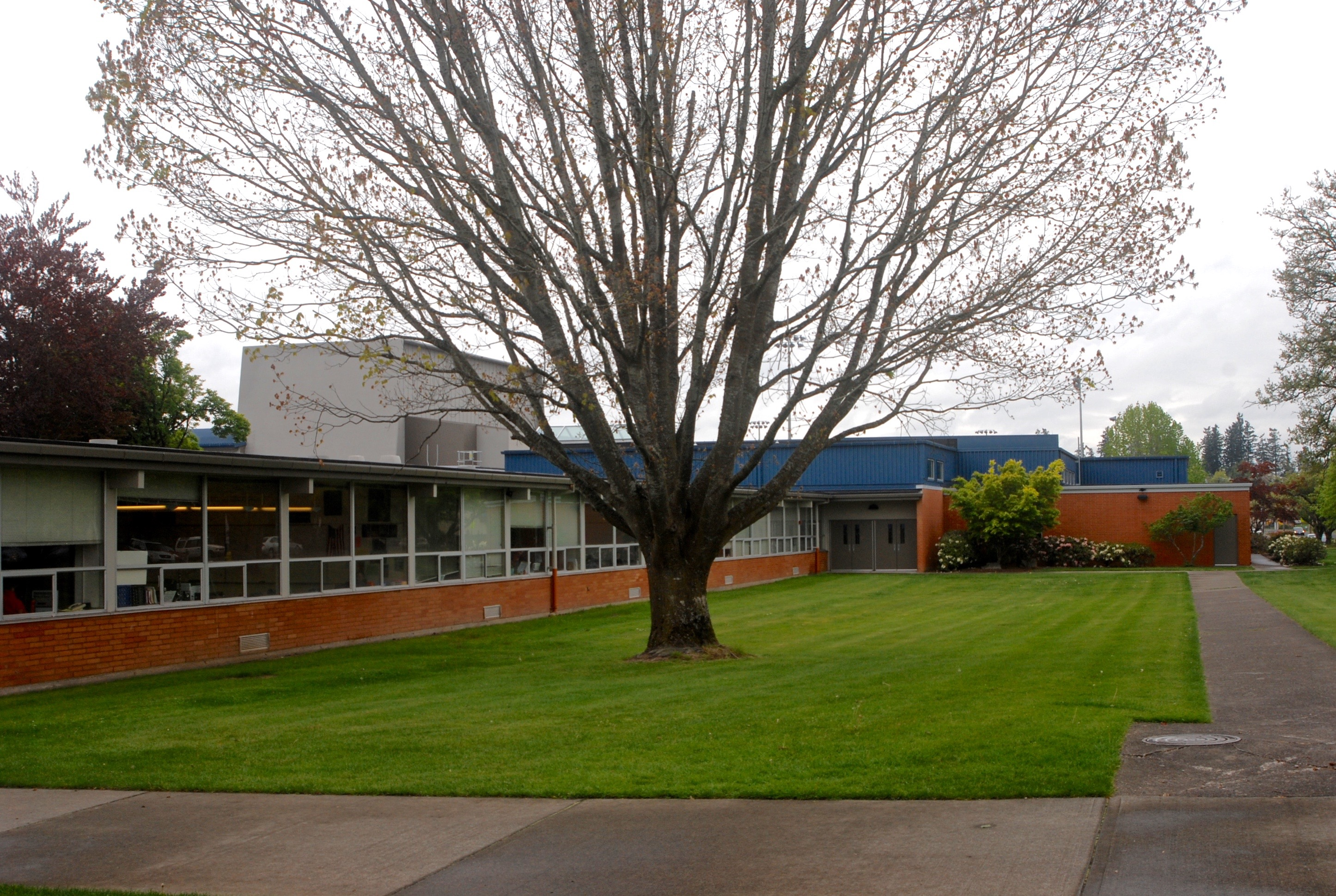 The front of Sunset High School (Beaverton School District), on Cornell Road in the mostly unincorporated Cedar Mill area. This view is looking west along the front (north side) of the building. The school opened in 1959. The windowless brick portion on the right, and its blue-colored second story, are expansions constructed in the 1980s or 1990s.